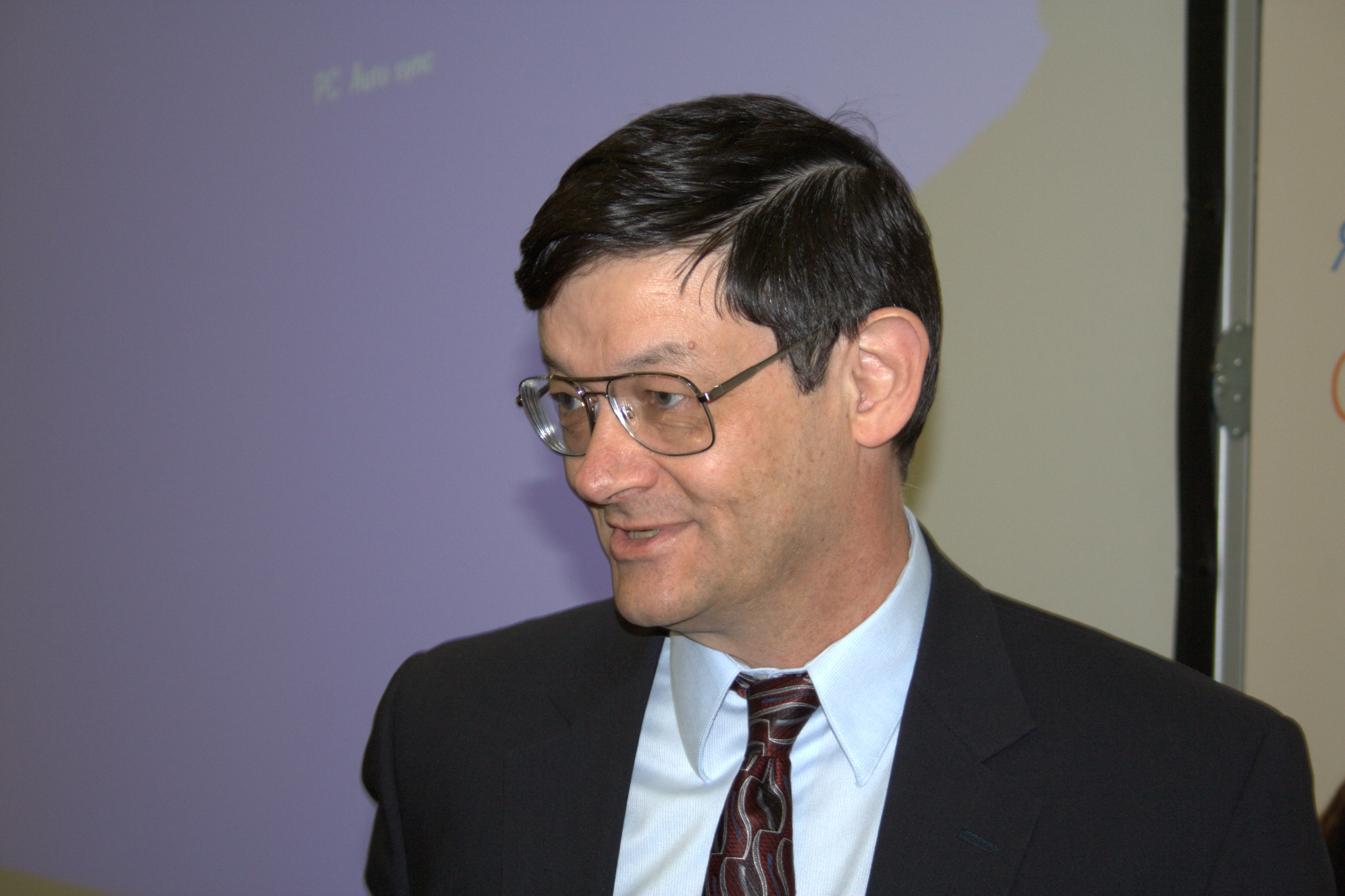 Andrew Morton, leading Linux kernel developer on the conference Interop (Moscow, 2008)